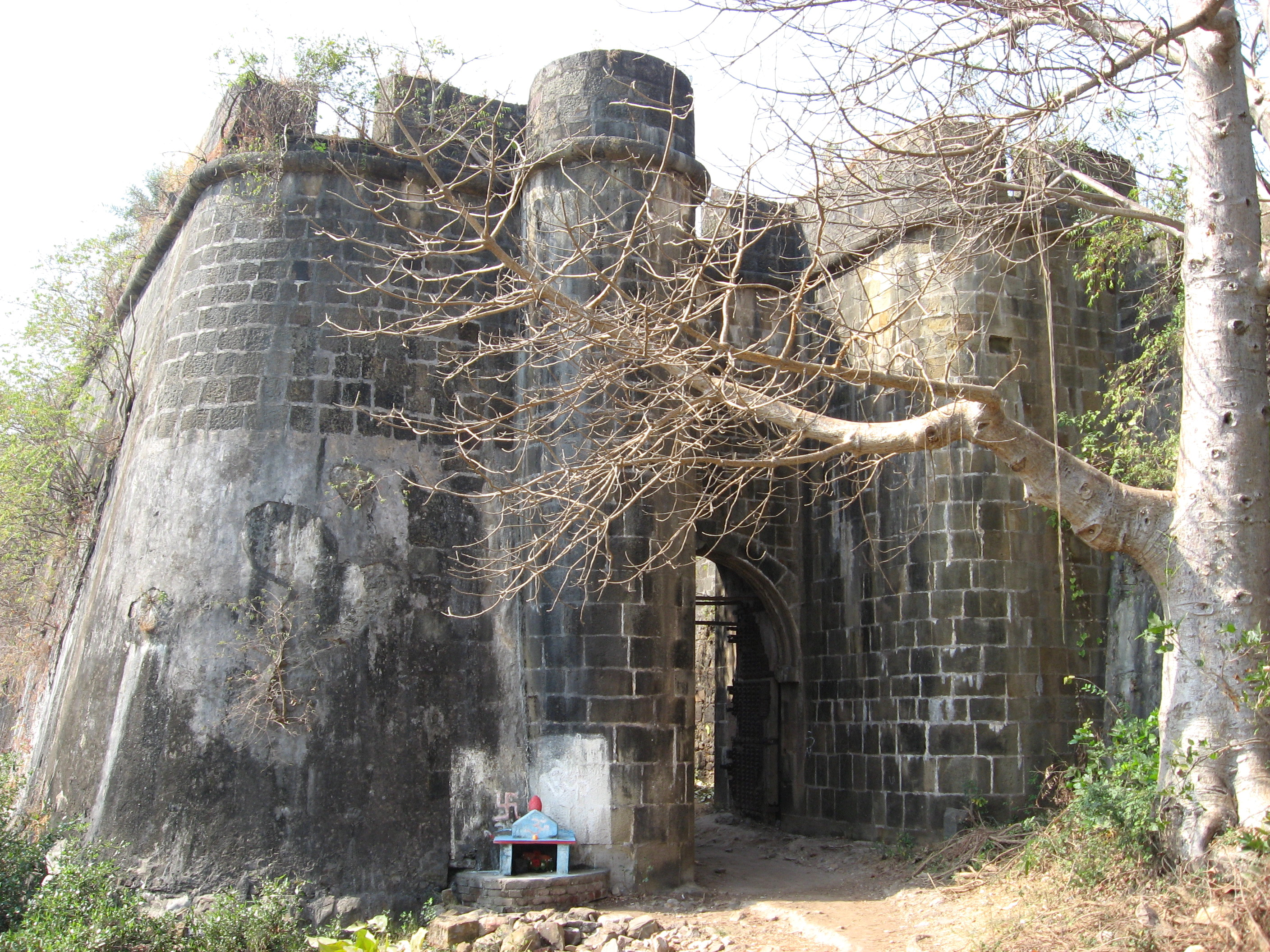 The Bassein Fort is a fort near Vasai, just north of Mumbai on the mainland just north of the Bombay archipelago.